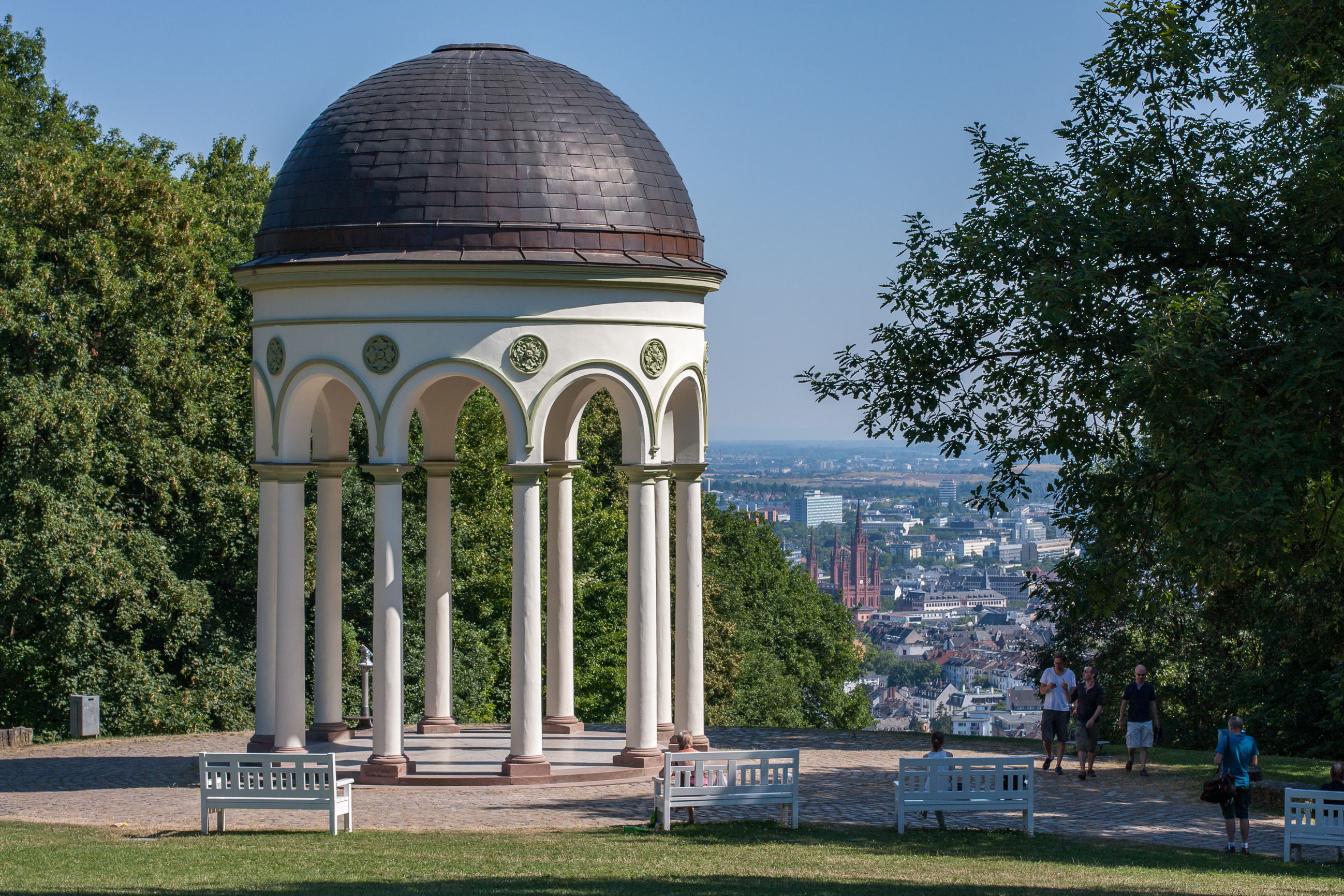 Monopteros on the Neroberg in Wiesbaden